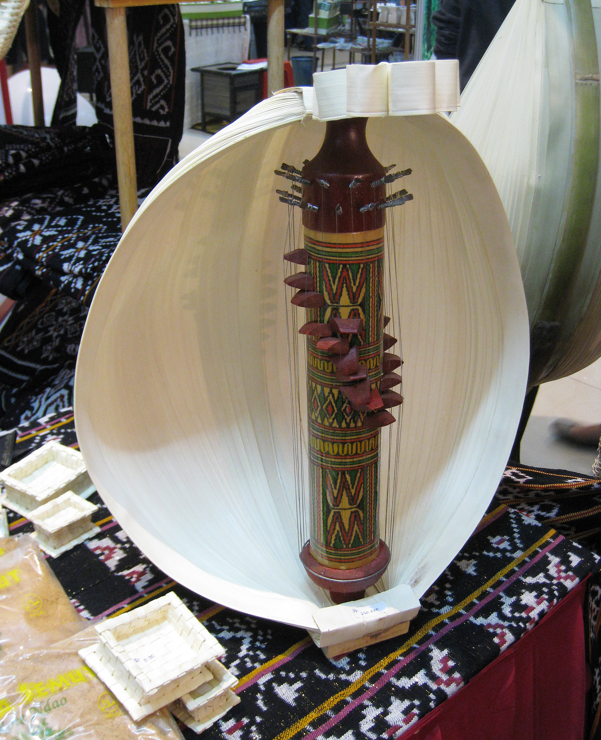 Sasando, a string music instrument made from bamboo, wood, and lontar leaf, from East Nusa Tenggara province, displayed in Jakarta Fair 2010.